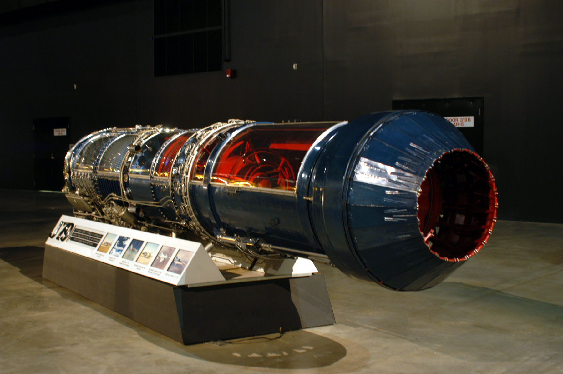 A General Electric which J79 Jet engine its covering is pardly open at the National Museum of the United States Air Force.